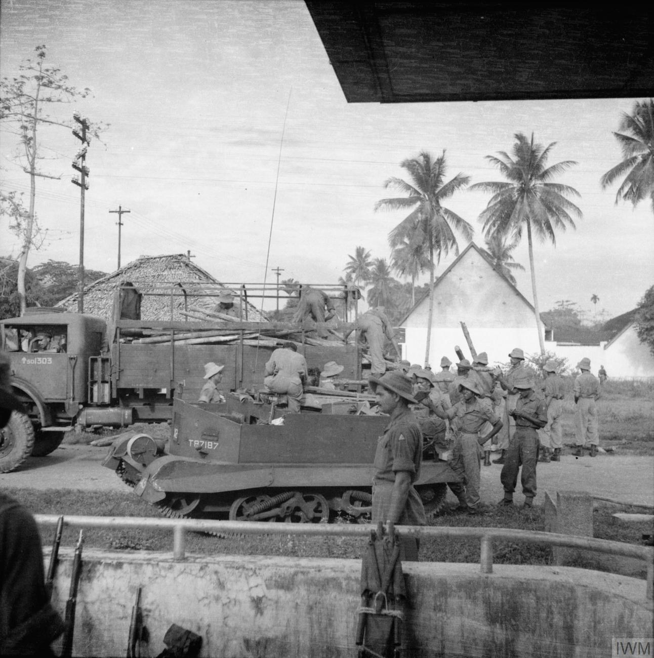 The Allied Occupation of Sumatra Troops of the 2nd Battalion, Frontier Force Rifles (26th Indian Division) unload material from their vehicles to construct strongpoints just outside the British held sector of the town of Medan in Sumatra.